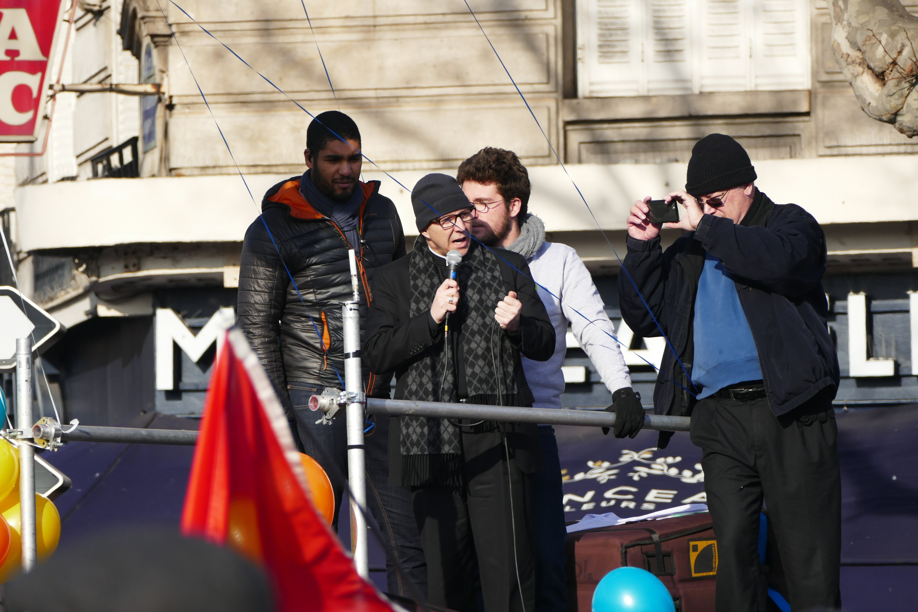 March for Life 2017 in Paris (Île-de-France, France).